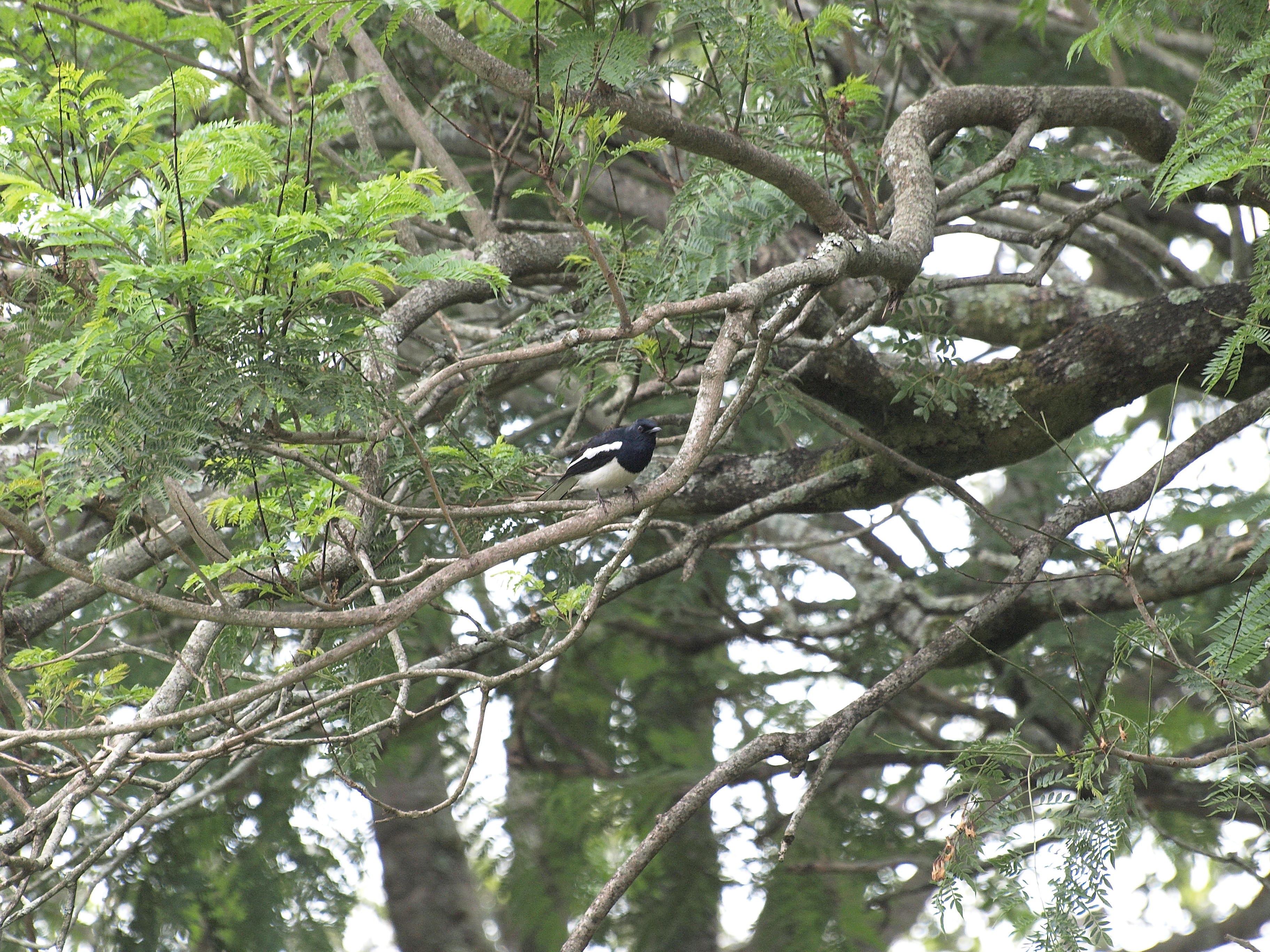 Beautiful tree and an Oriental Magpie-robin Copsychus saularis siting in the three in Sim's Park, Coonoor